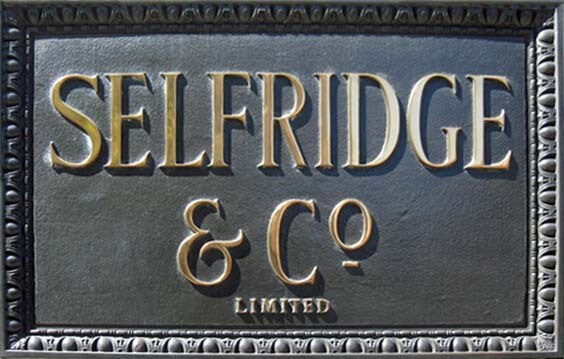 Selfridges name board at the entrance to Selfridges, Oxford Street, London